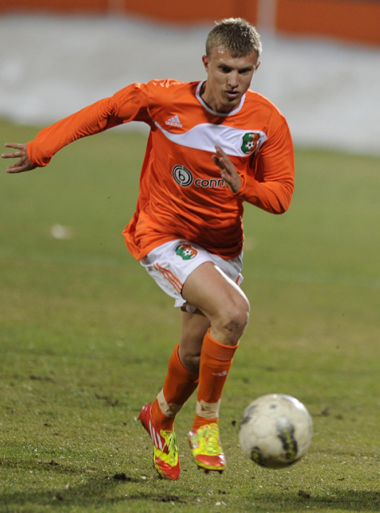 Armando Vajushi